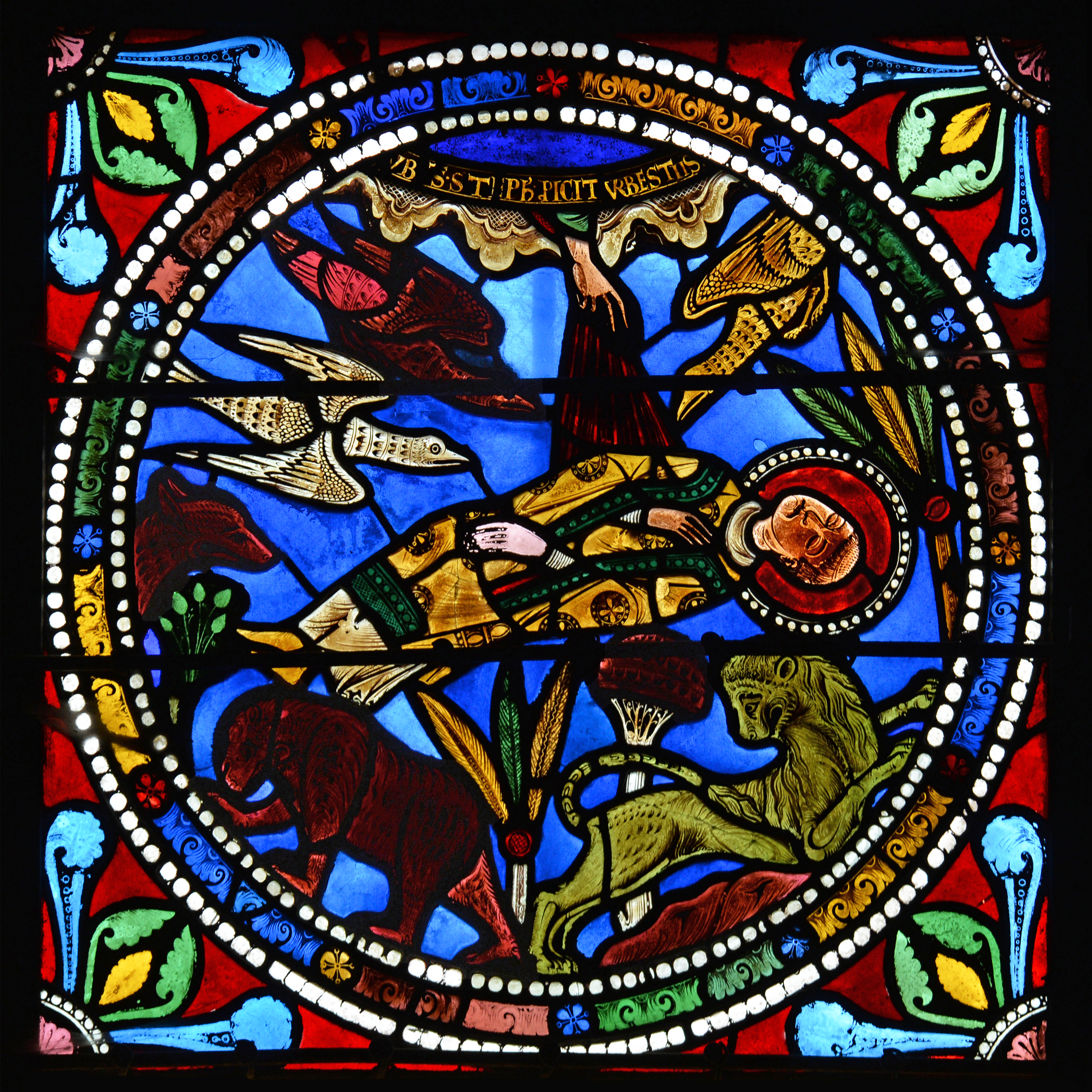 Detail of Saint Stephen stained glass window.